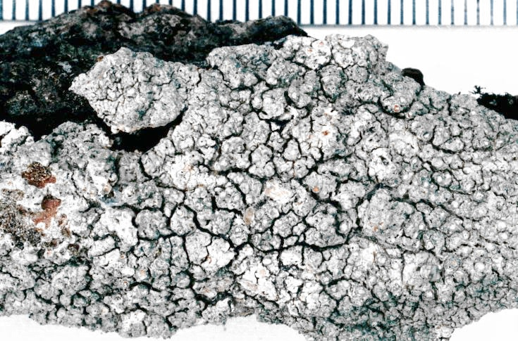 Pertusaria velata (Turner) Nyl., 1861 (photograph of a herbarium specimen) Growing on bark of Red Maple in open woods at Pellston Campground, N side of Robinson Road, Emmet County, Michigan, USA; collected and identified by Richard Riefner (No. 81-269, 26 Jun 1981); specimen is now in the Lichen Herbarium of the New York Botanical Garden. (scale marks = millimeters)